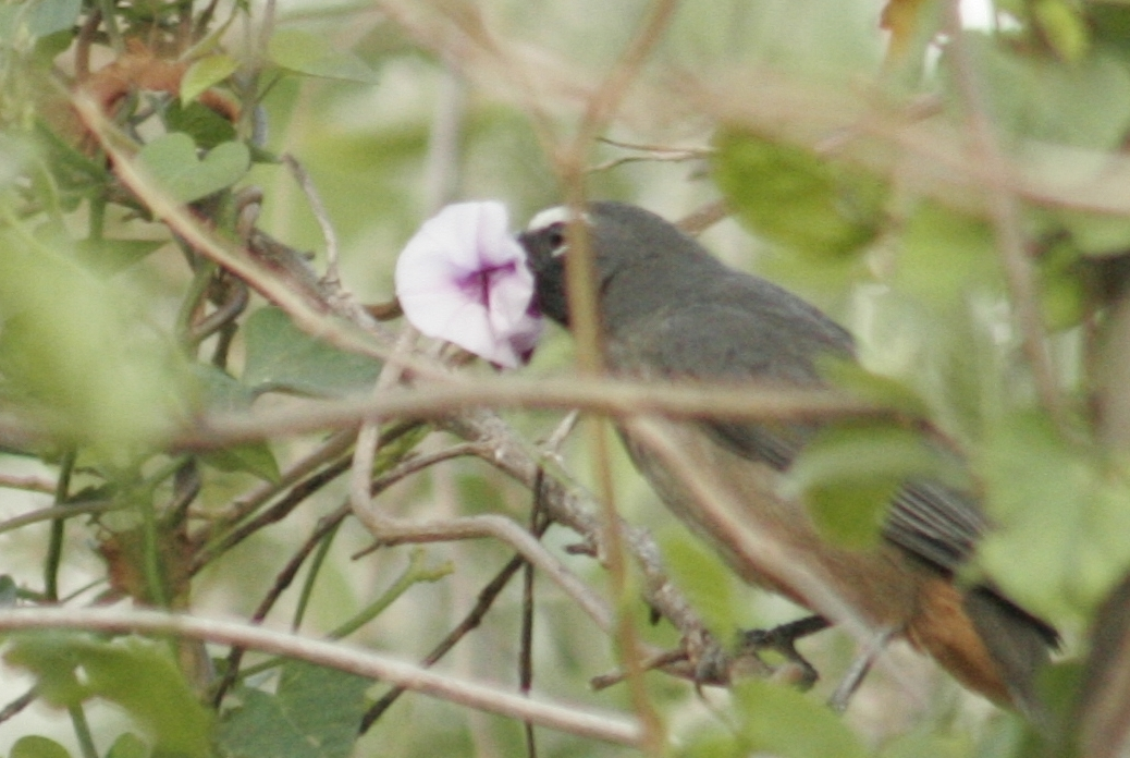 Series: Saltator eating a morning glory.